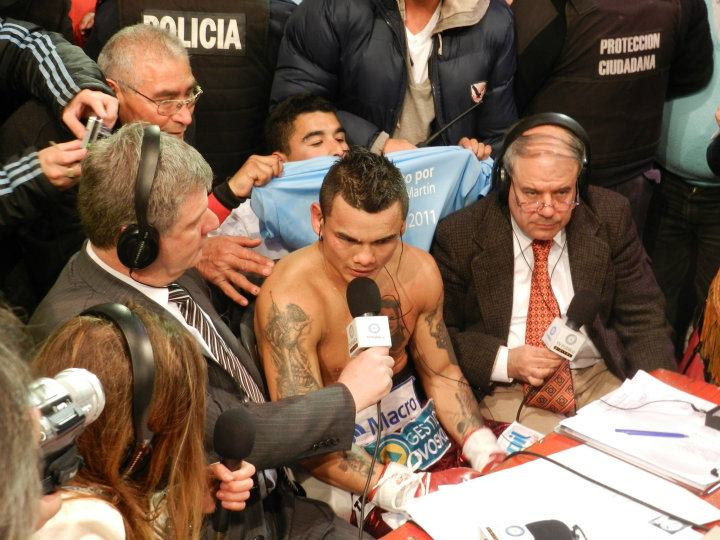 Marcos René Maidana, just after the victory in Buenos Aires, Argentina on September 23, 2011.